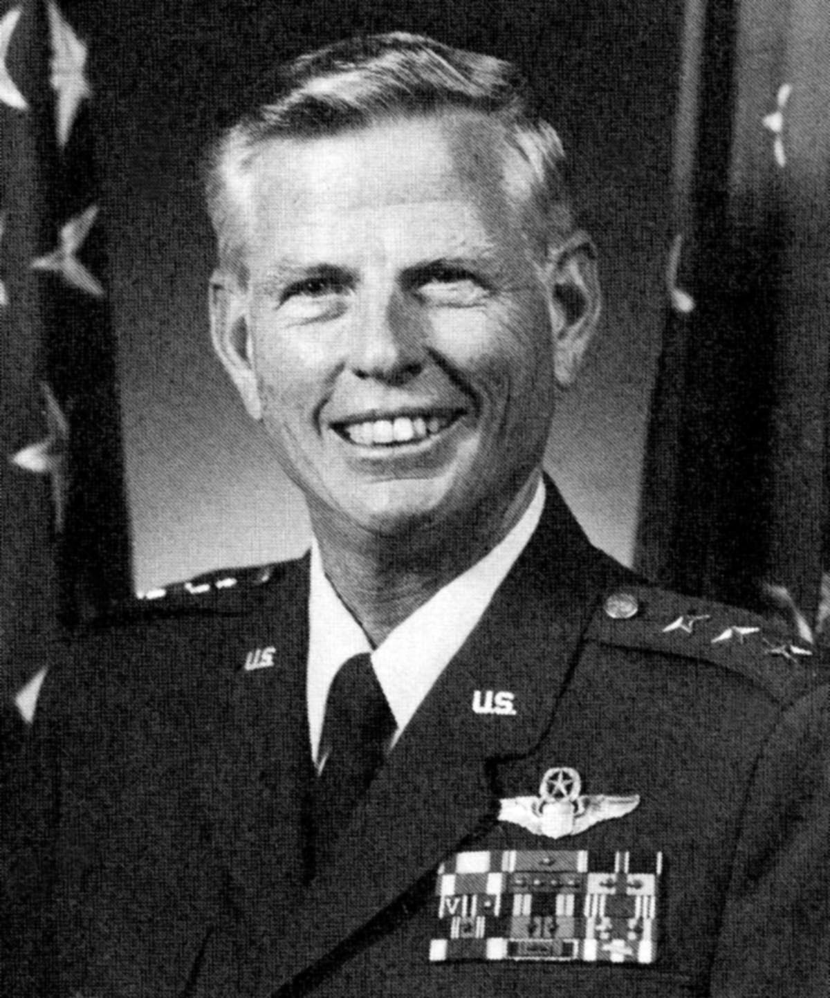 Lt Gen Kenneth Peek USAF